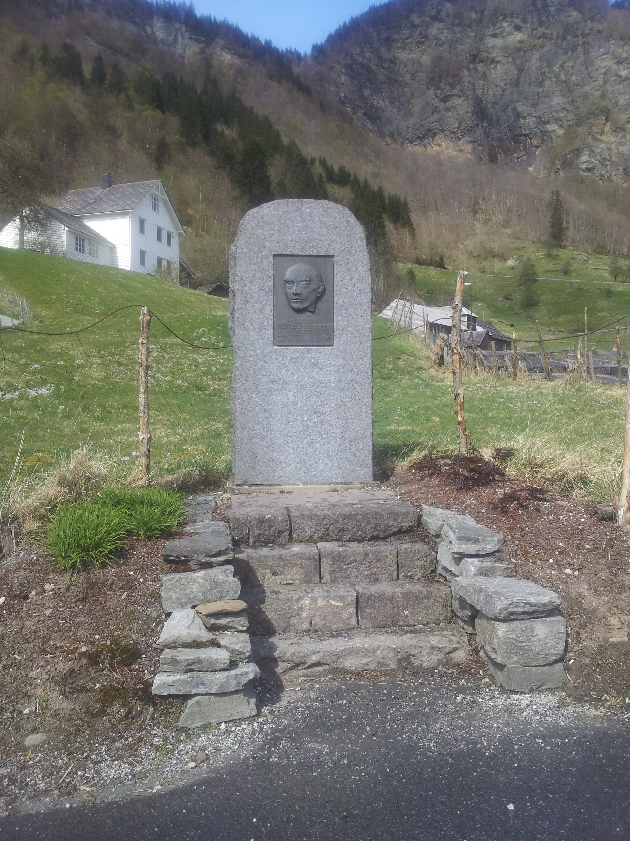 Norwegian astrophysicist Svein Rosseland's bust at Steinsdalsfossen, Norheimsund, Norway.